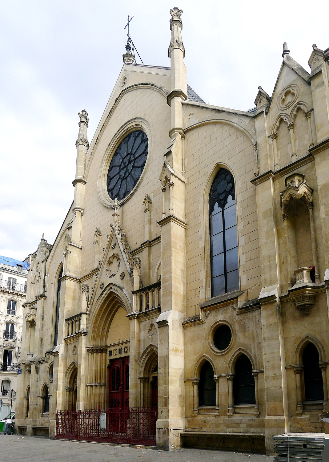 Saint-Eugène Sainte-Cécile church - Paris